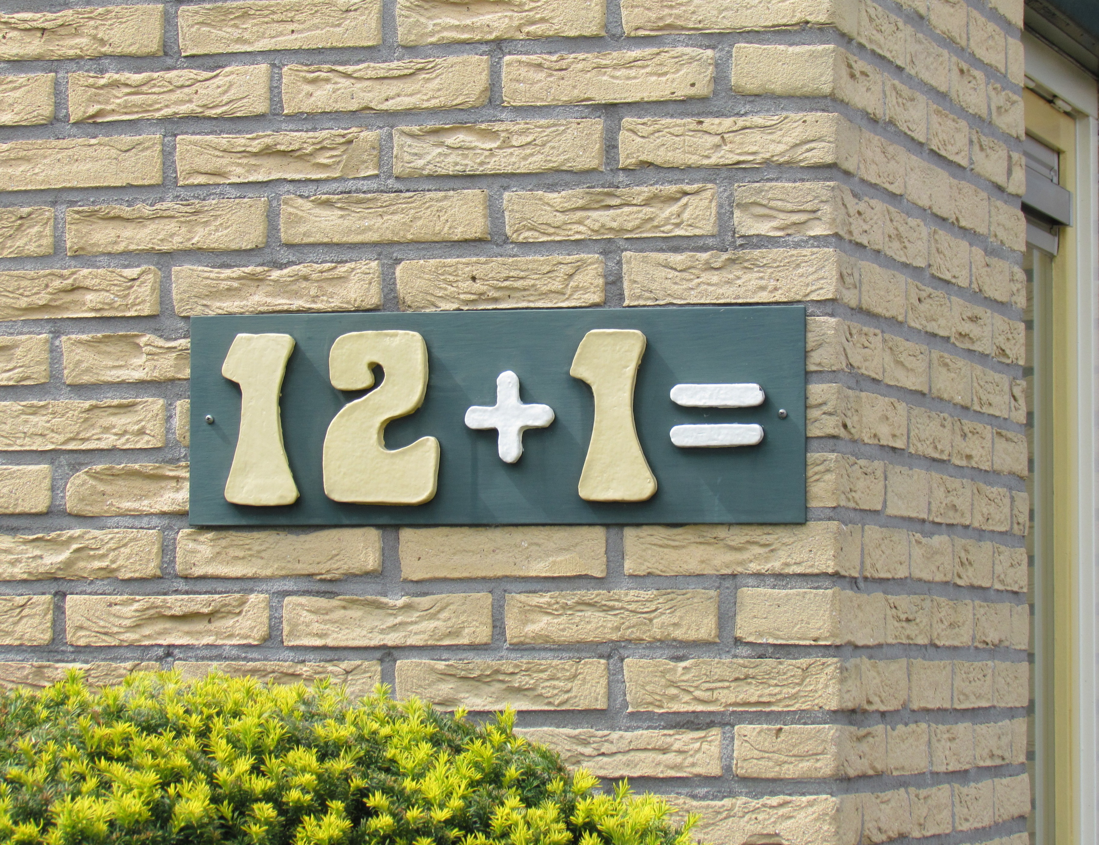 House number 13 written as 12+1 (Apeldoorn, the Netherlands)